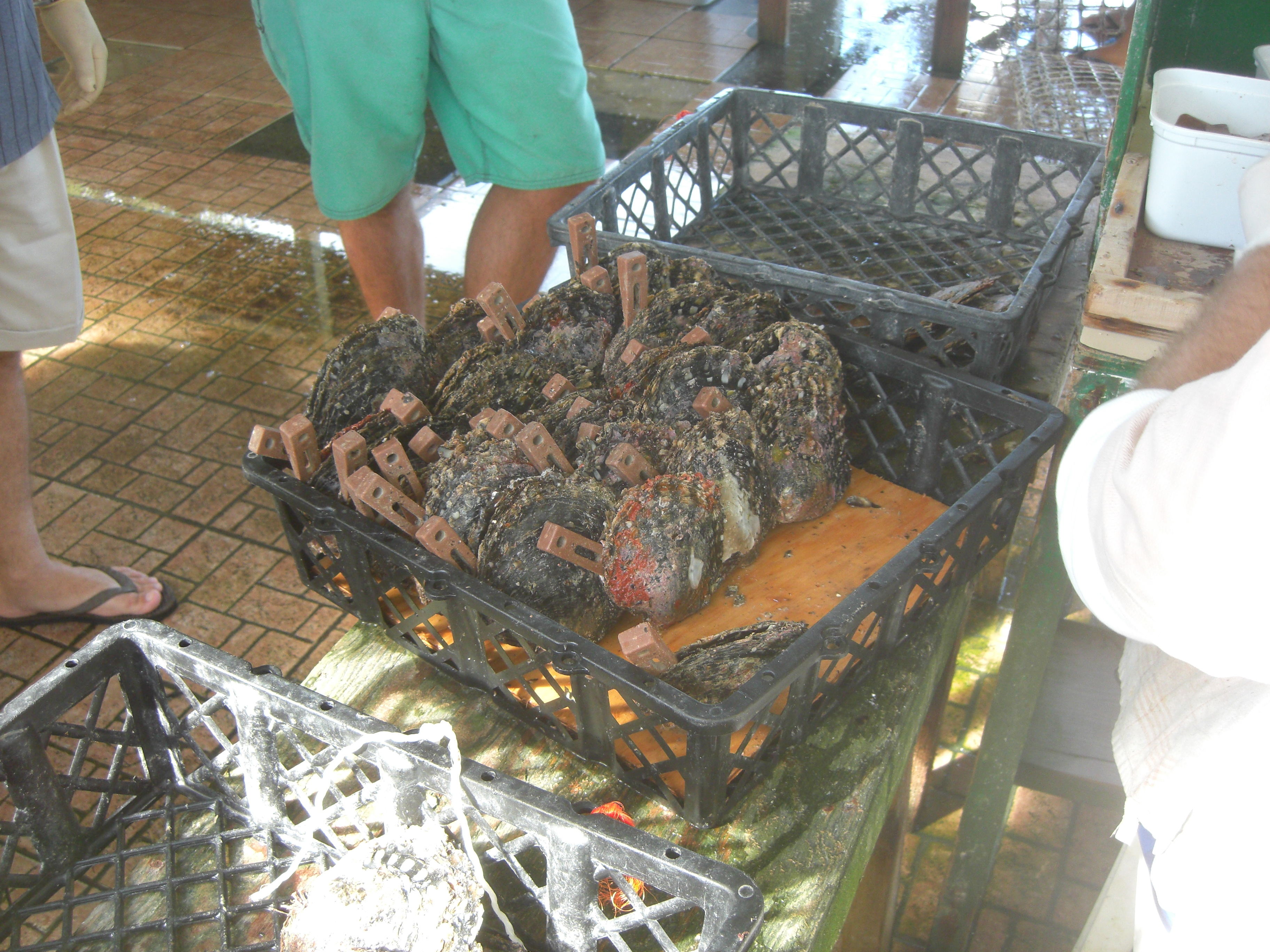 Rangiroa (pearl farm)